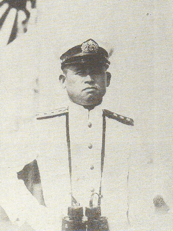 Masao Nishida. Captain of the Imperial Japanese Navy. Japanese battleship "Hiei" in command. The trimmed version.